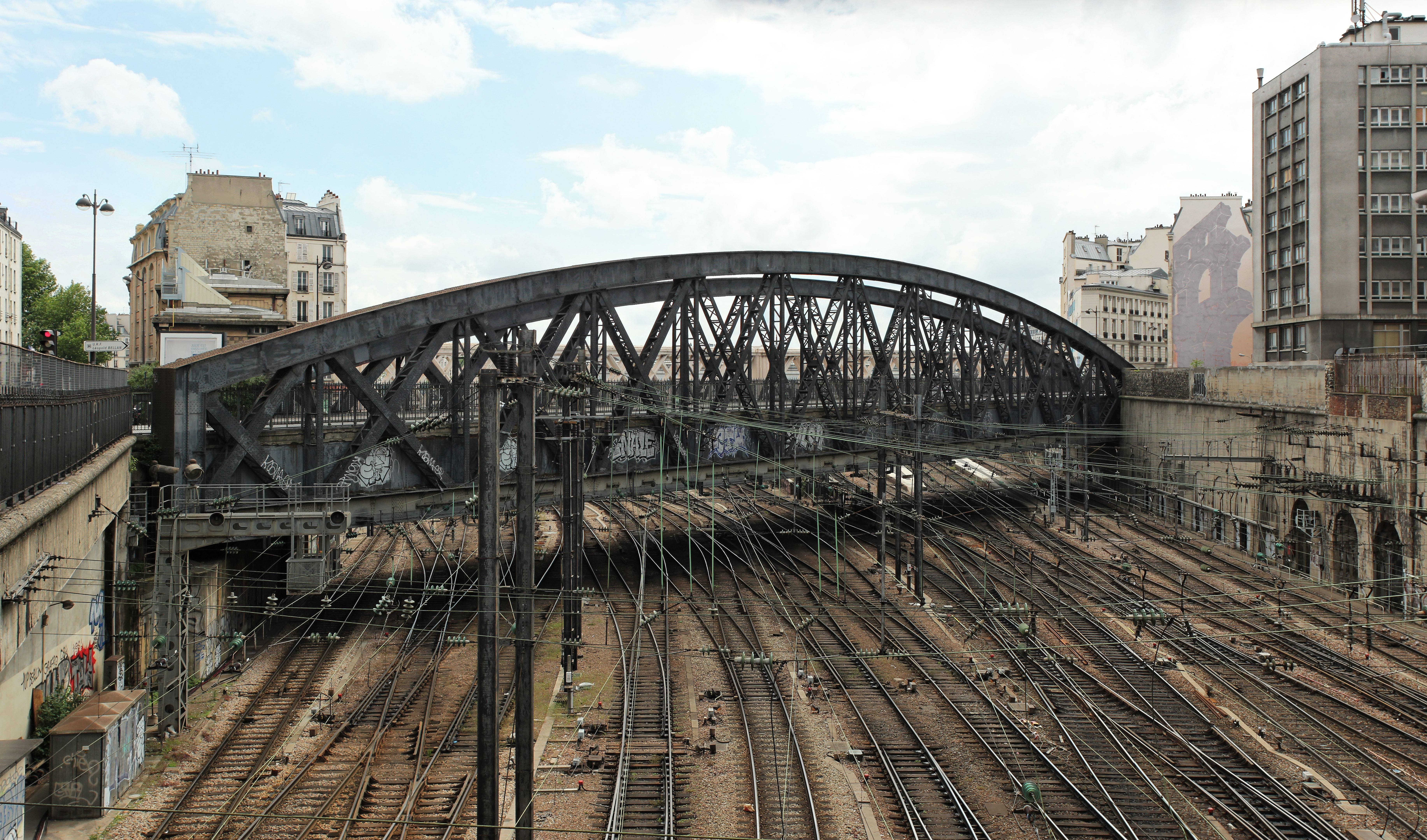 Viaduc de la rue de l'Aqueduc, Paris, from the north.